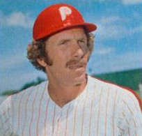 Professional baseball player Mike Schmidt